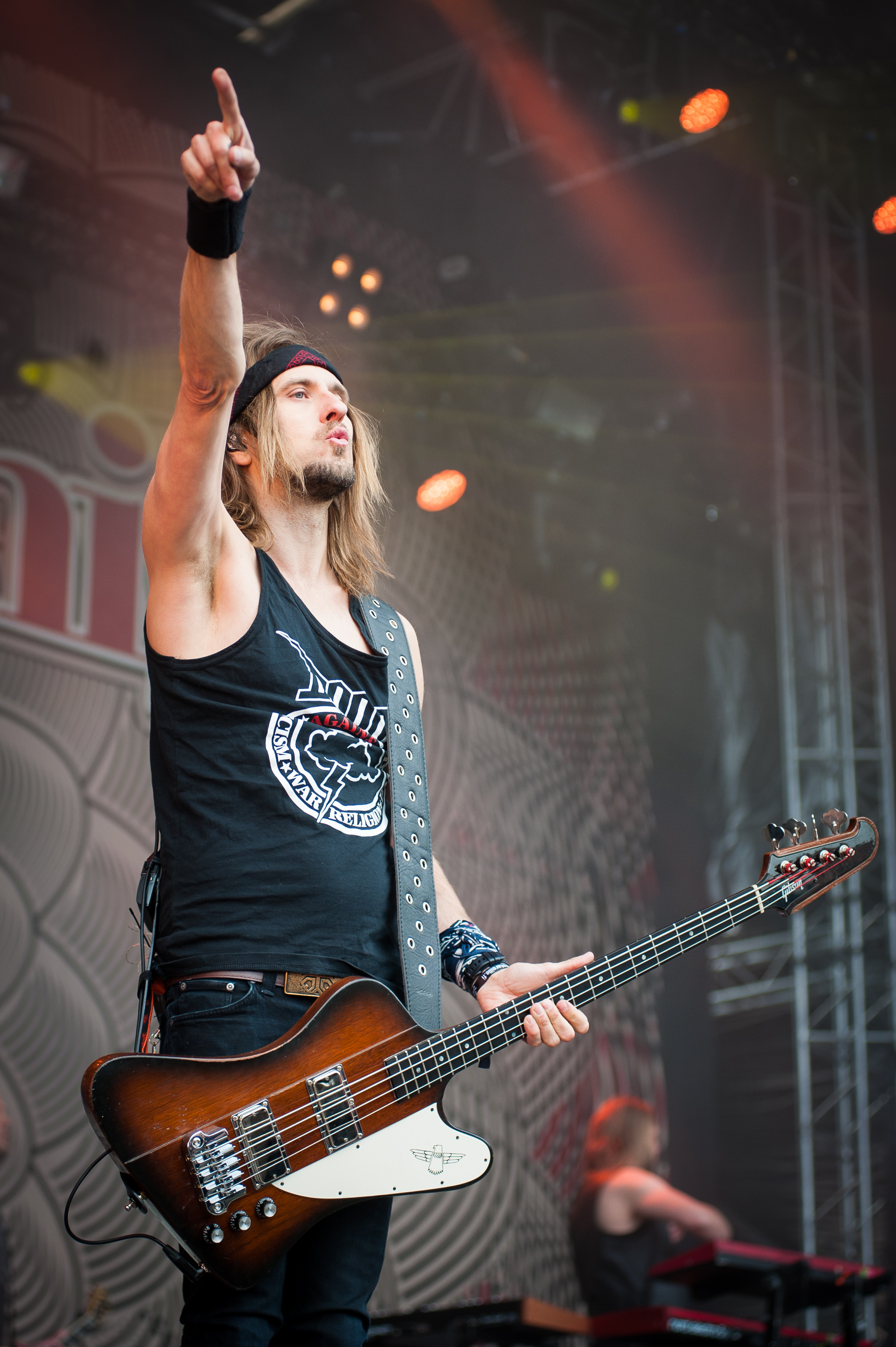 Finnish heavy metal band Amorphis performing at the 2018 South Park festival in Tampere, Finland.